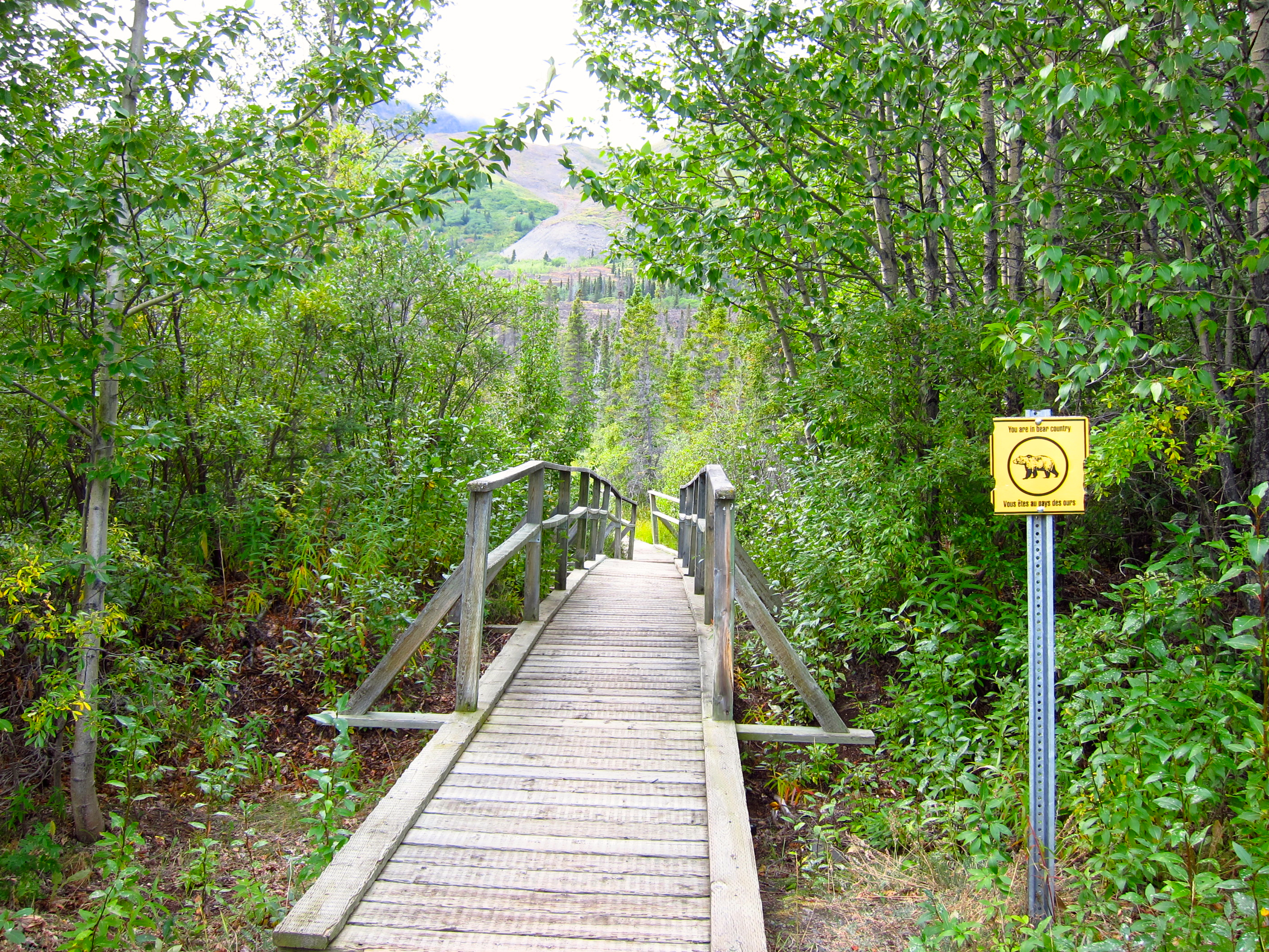 Entrance of Rock Glacier Trail